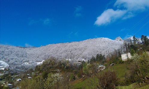 ზესოფელი, მეთორმეტე საუკუნის თამარის ციხე-მონასტერი